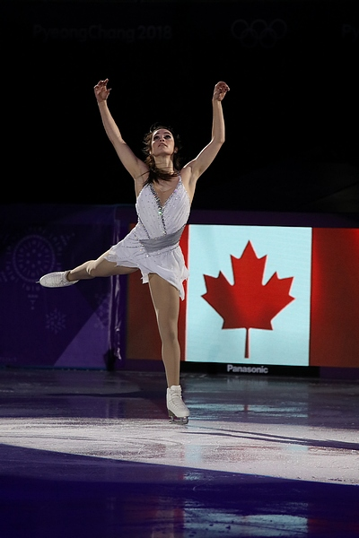 Gala exhibition at the 2018 Winter Olympics